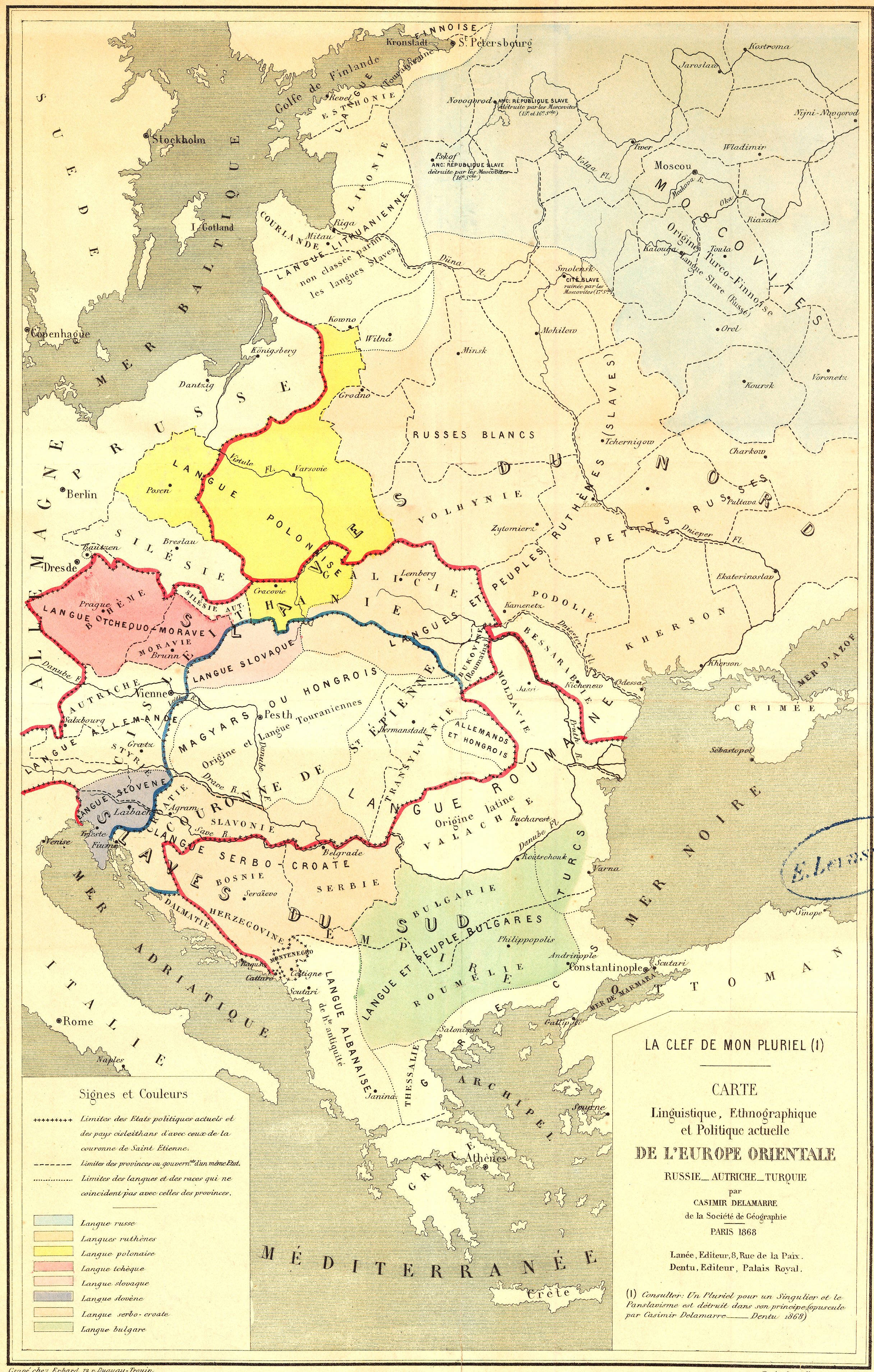 Linguistic, ethnographic, and political map of Eastern Europe by Casimir Delamarre (Théodore-Casimir Delamarre), 1868. Original title: Clef de mon pluriel. Carte linguistique, ethnographique, et politique actuelle de l'Europe orientale, Russie, Autriche, Turquie / par Casimir Delamarre ; gravé chez Erhard.